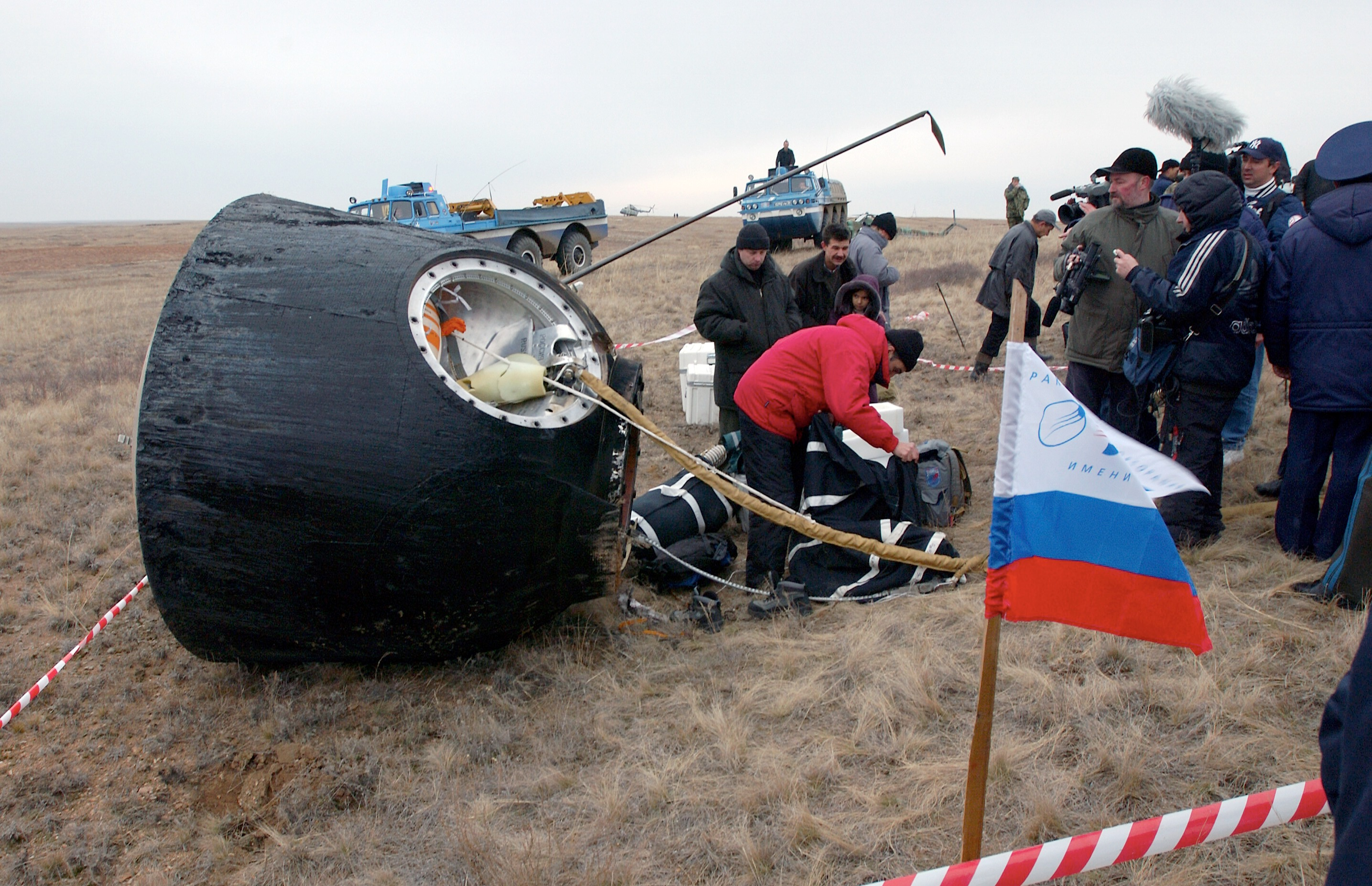 The Soyuz TMA-2 spacecraft carrying cosmonaut Yuri I. Malenchenko, Expedition 7 mission commander; astronaut Edward T. Lu, NASA ISS science officer and flight engineer; and European Space Agency (ESA) astronaut Pedro Duque of Spain is photographed on the ground after landing in Kazakhstan on October 27, 2003 at 9:41 p.m. (EST).